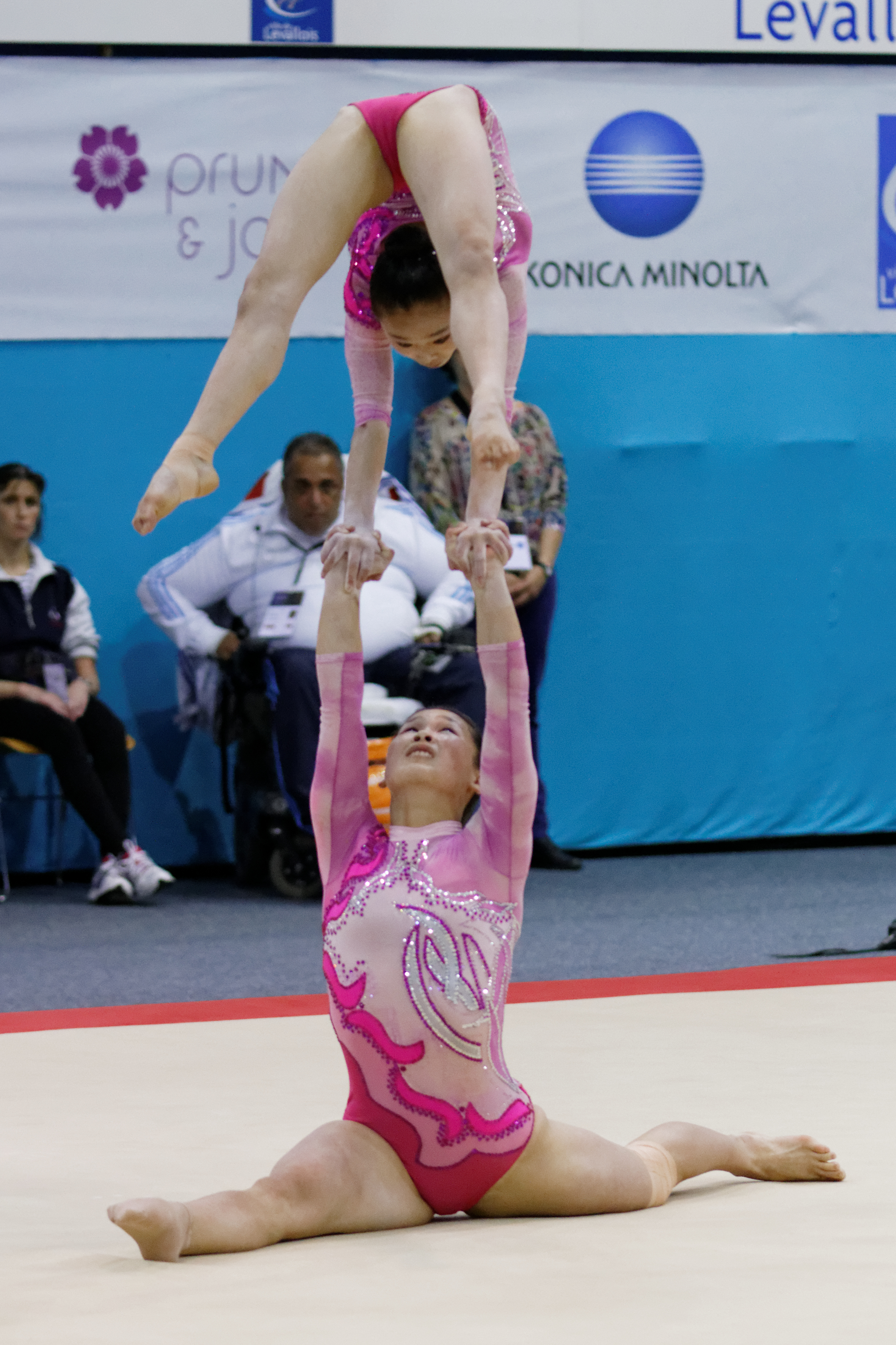 2014 Acrobatic Gymnastics World Championships, 10th-12 July, Levallois-Perret, France. Finals : women pair. North Korea.